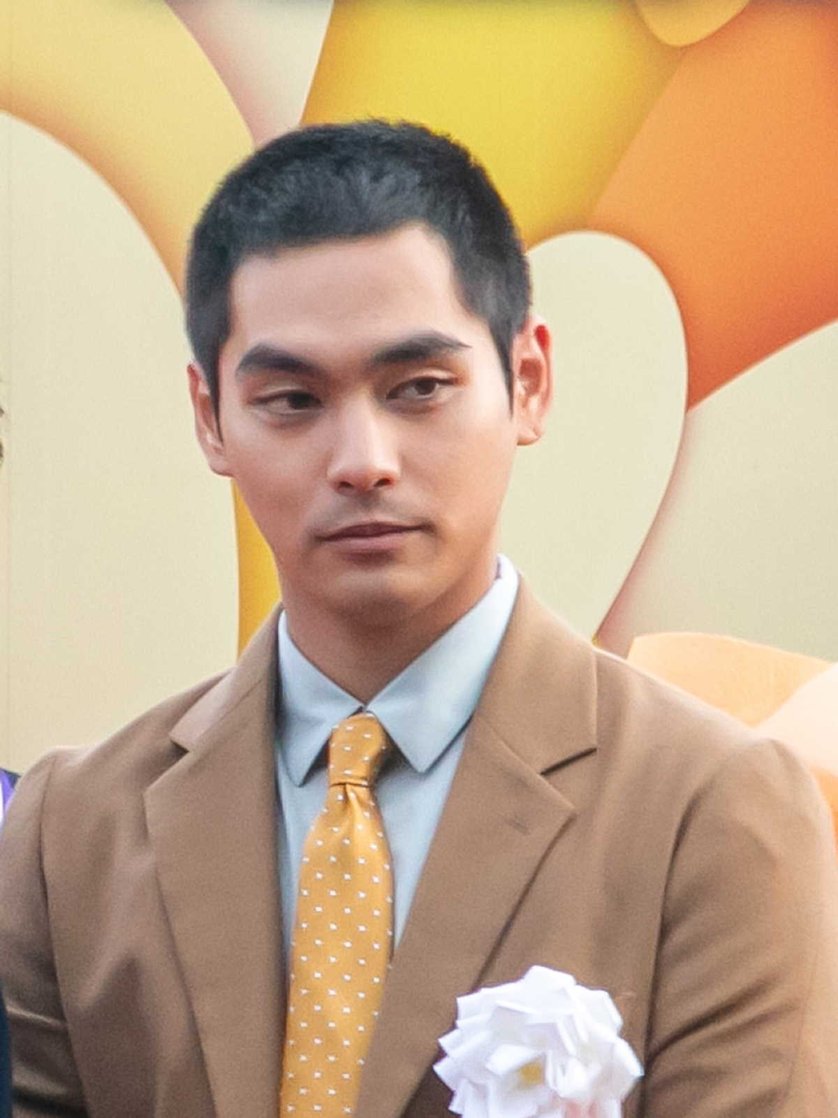 Yūya Yagira in Kyoto Racecourse.